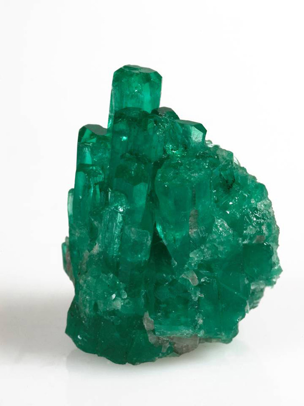 genial